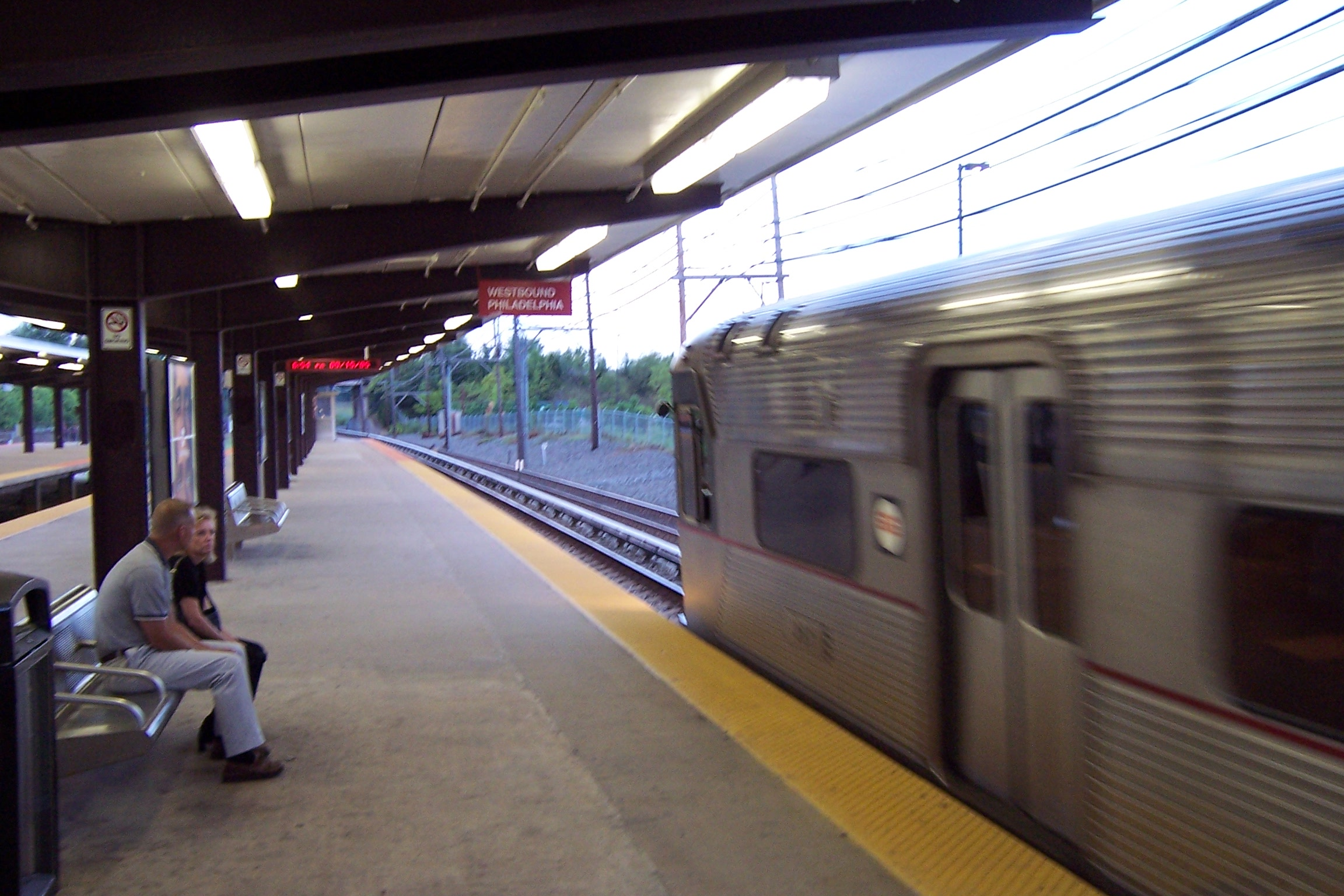 A PATCO Speedline train pulls into Woodcrest station, heading towards Philadelphia, in September 2005